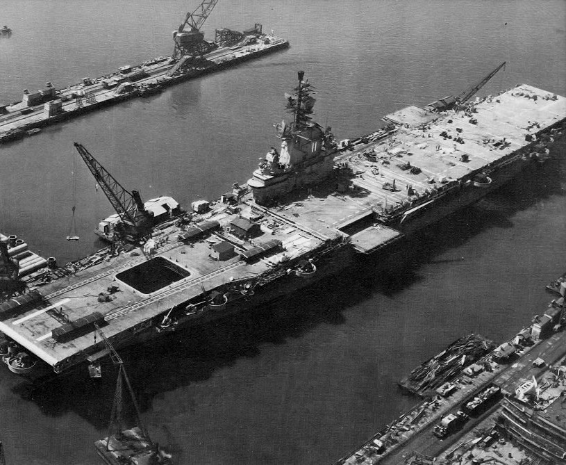 The U.S. Navy aircraft carrier USS Intrepid (CVA-11) during her SCB-27C modernization at Newport News Shipbuilding, Virginia (USA) between April 1952 and June 1954. Note that the main features, a new island, steam catapults and the aft deck edge elevator, are already installed.